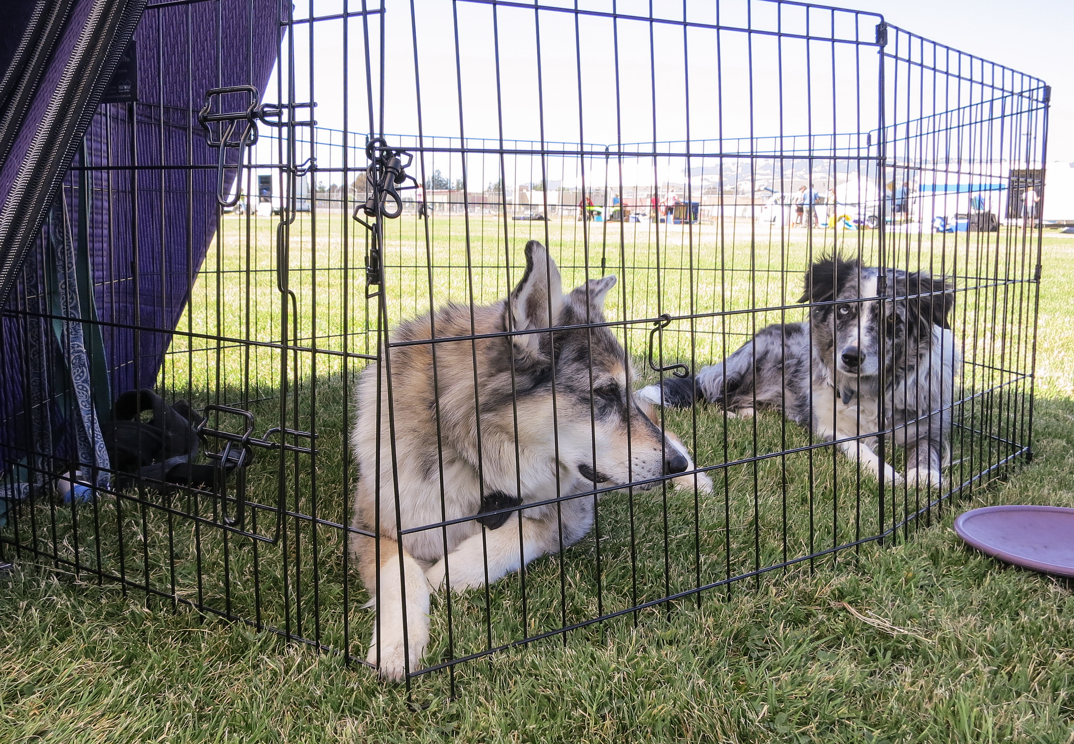 Folding portable pens like this for dogs are called exercise pens.